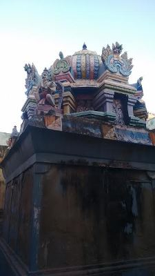 Thanjavur melavasal ranganathar temple தஞ்சாவூர் மேலவாசல் ரங்கநாதர் கோயில்